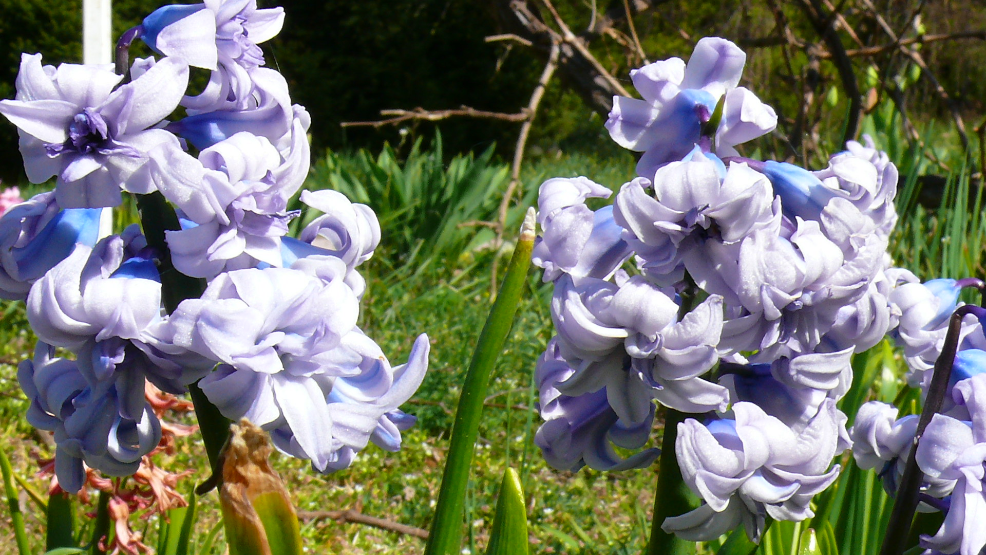 Hyacinthus orientalis cv. General Koëhler